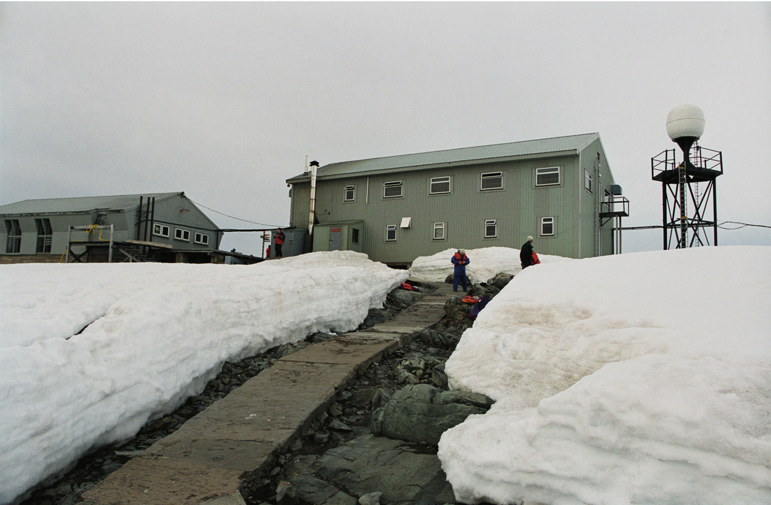 Ukrainian Antarctic Station - Vernadsky Research Base